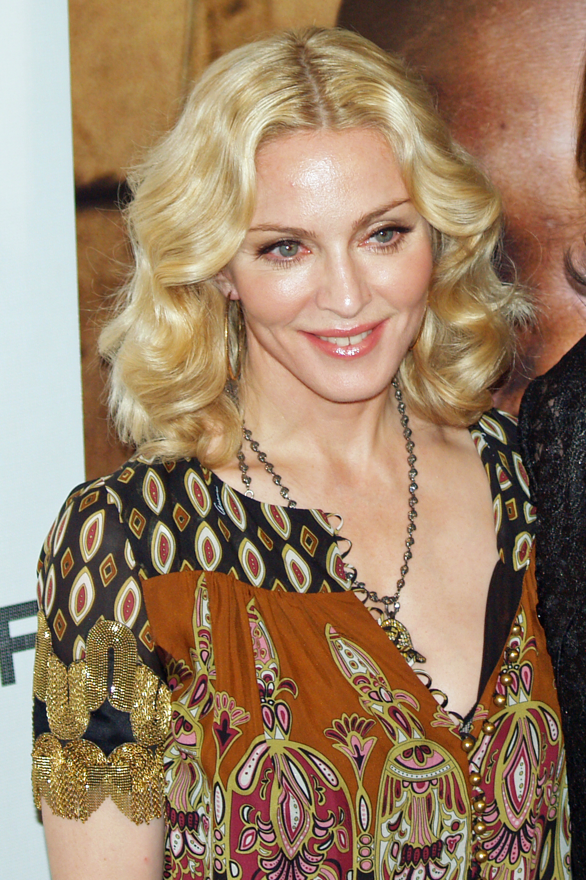 Madonna at the premiere of I Am Because We Are at the 2008 Tribeca Film Festival.